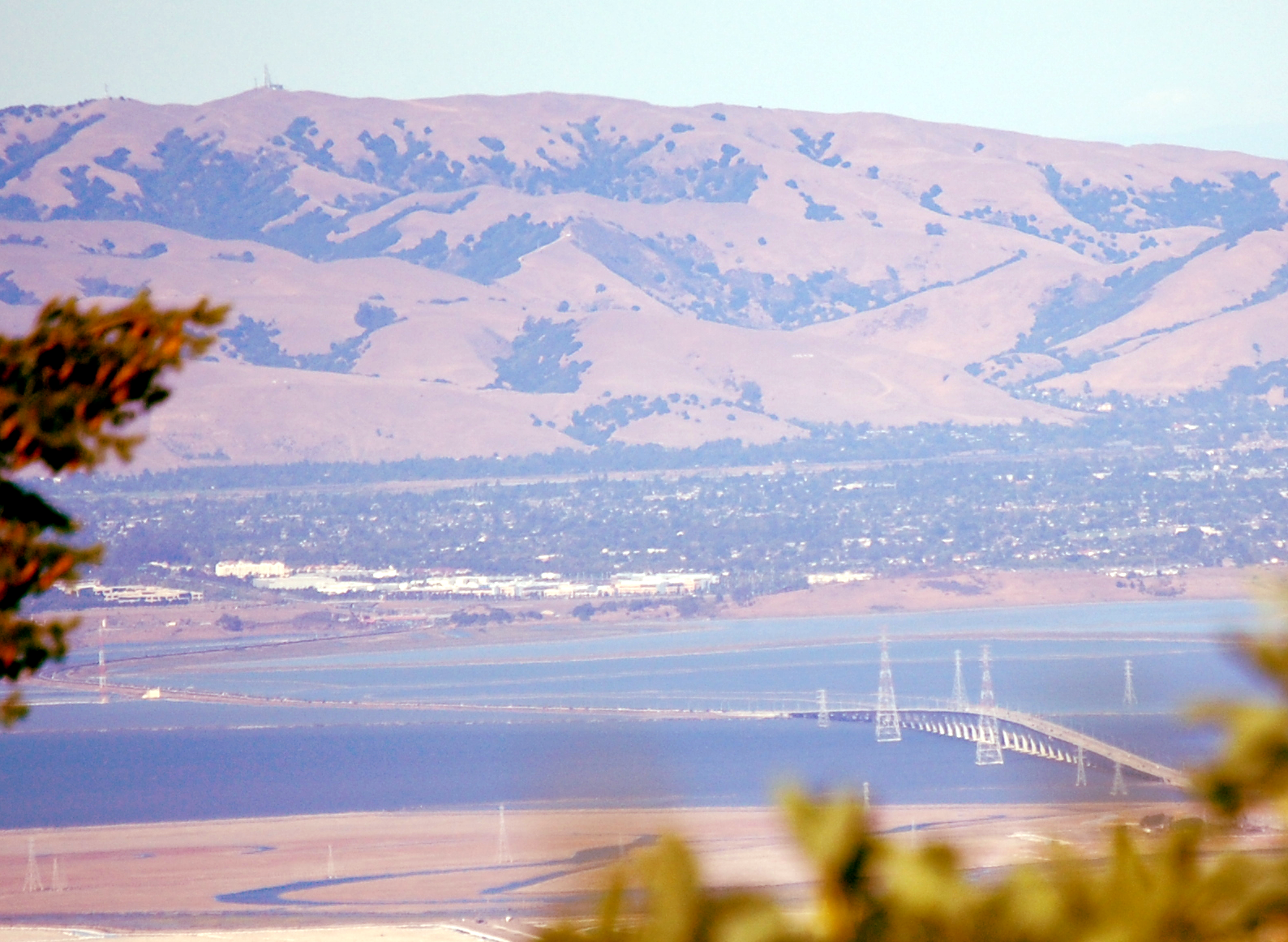 It is 12 mi to the Dumbarton span ctr from Skeggs Point. It is 15 mi to the toll plaza from Skeggs. The communications tower on the hill top is about 26 miles from Skeggs Point. Images may have been altered using filters or camera settings. Software may have been used to adjust image attributes such as image file format, image size, composition, contrast, or colors.